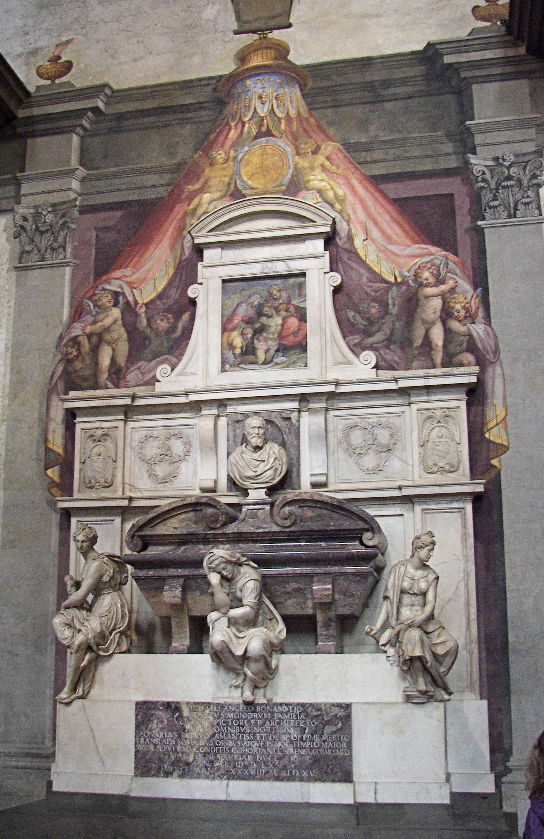 Grave of Michelangelo in Santa Croce in Firenze.